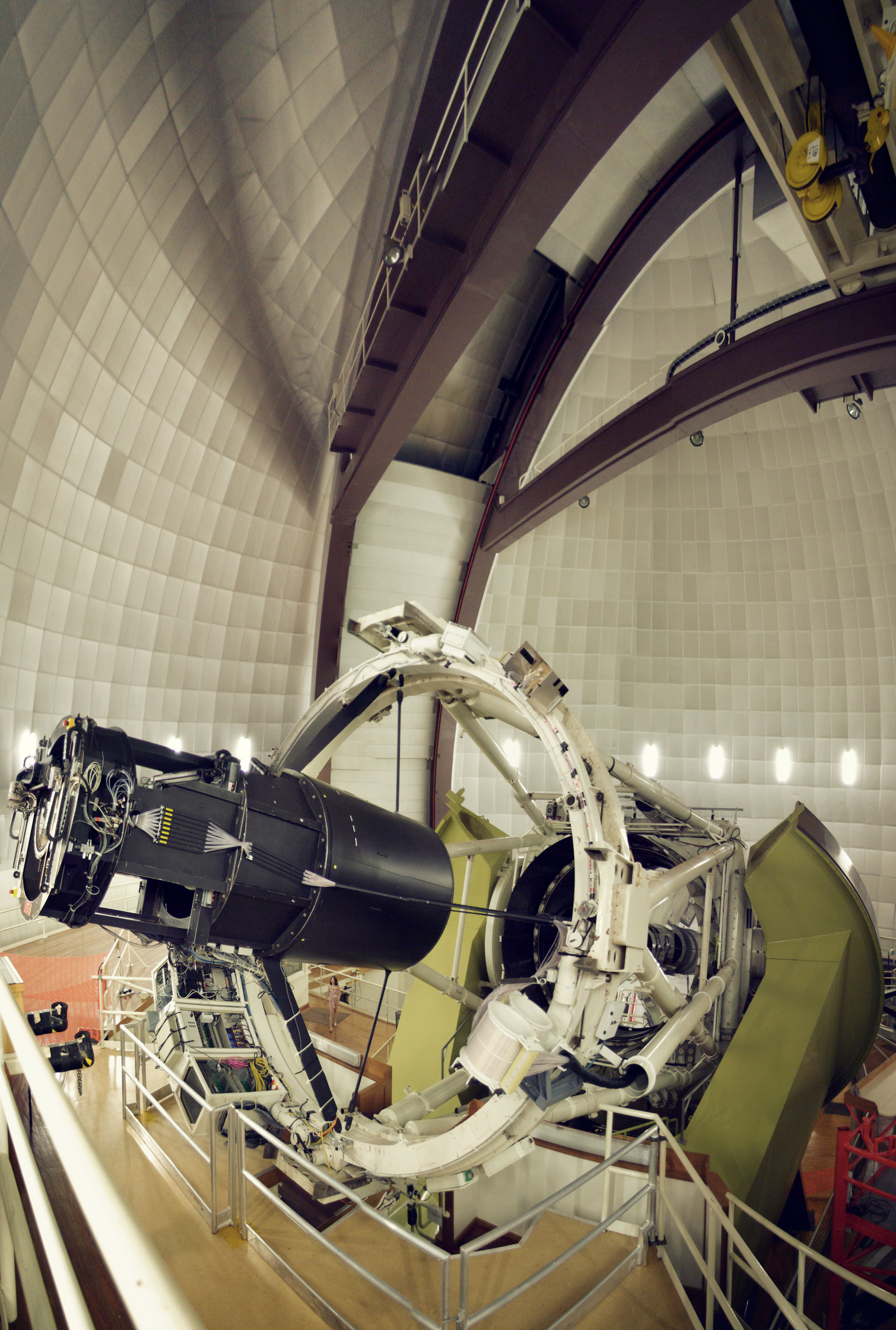 The Anglo-Australian telescope at Siding Springs Observatory, near Coonabarabran. Photo by Ahilan Parameswaran